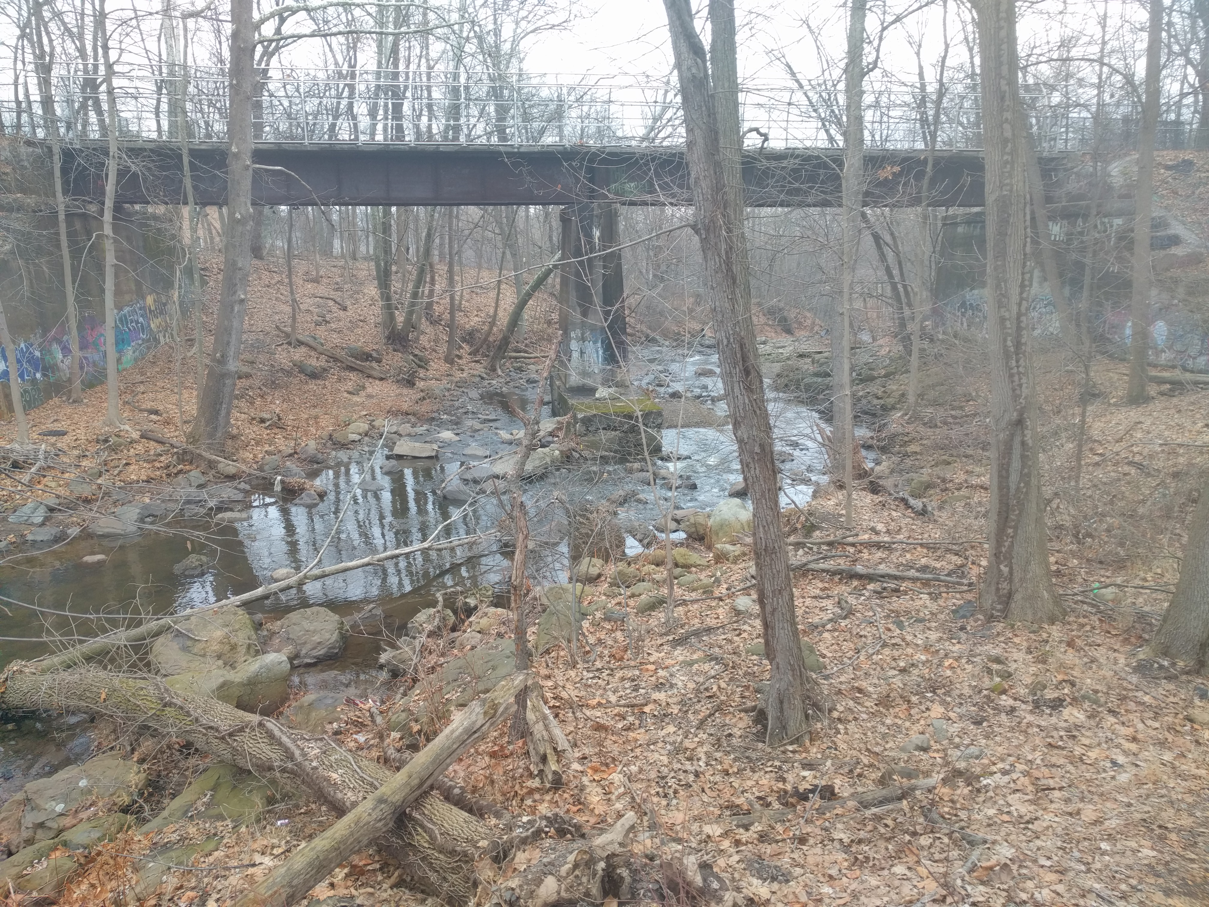 looking north from parking lot